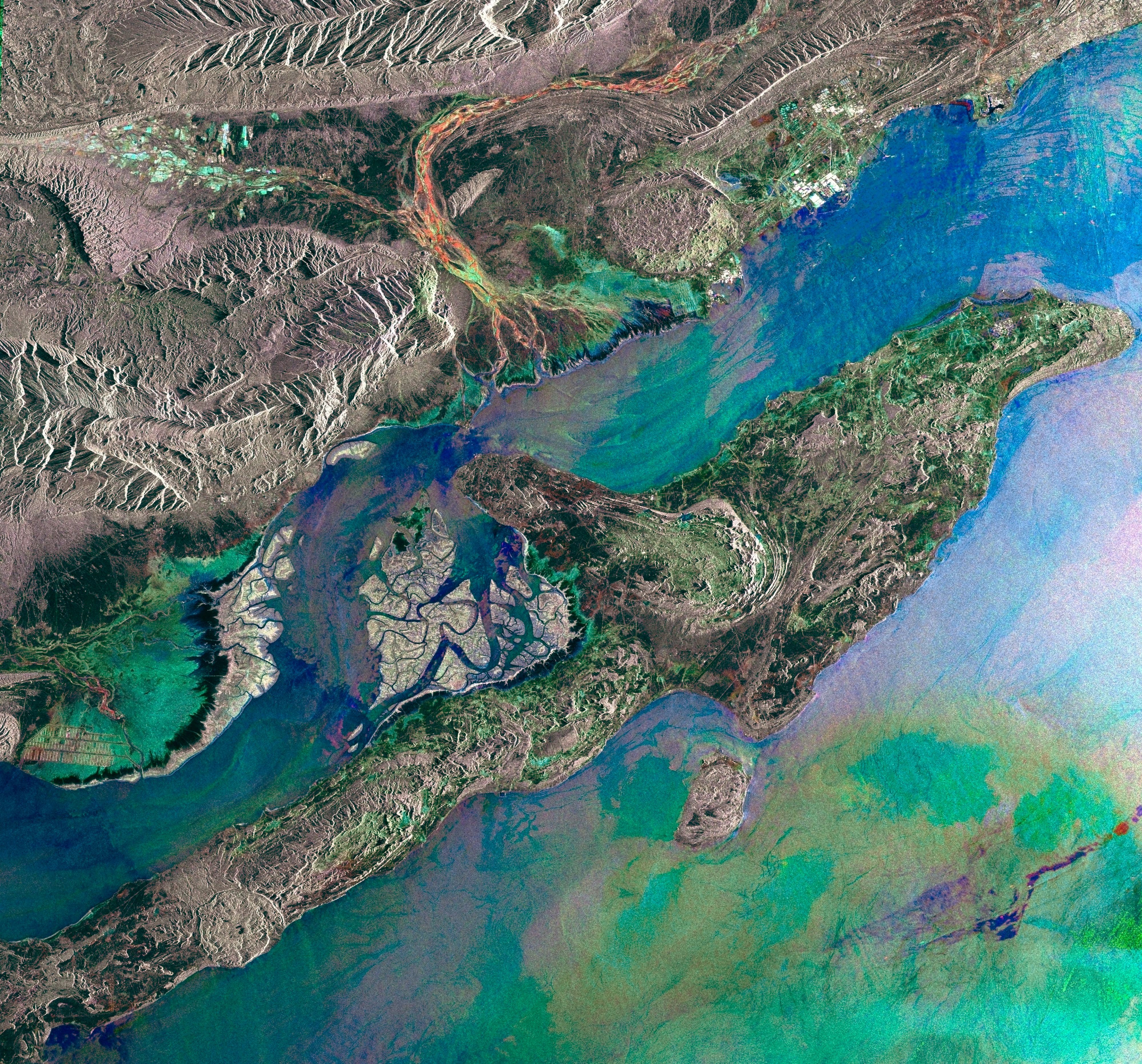 This Envisat image features the largest island in the Persian Gulf: Iran’s Qeshm Island. This long thin island lies just a few kilometres off the Iranian coast near the narrow Strait of Hormuz, which separates the Persian Gulf to the west and the Gulf of Oman to the southeast. Qeshm Island harbours the Hara Biosphere Reserve, the largest stretch of mangrove forest along the Persian Gulf shoreline. This network of shallow waterways and forest can be seen clearly in the image, between Qeshm Island and the mainland. The image was created by combining three Envisat radar images from 2009 (7 May, 29 October and 3 December) over the same area. The colours result from changes in the surface between acquisitions.